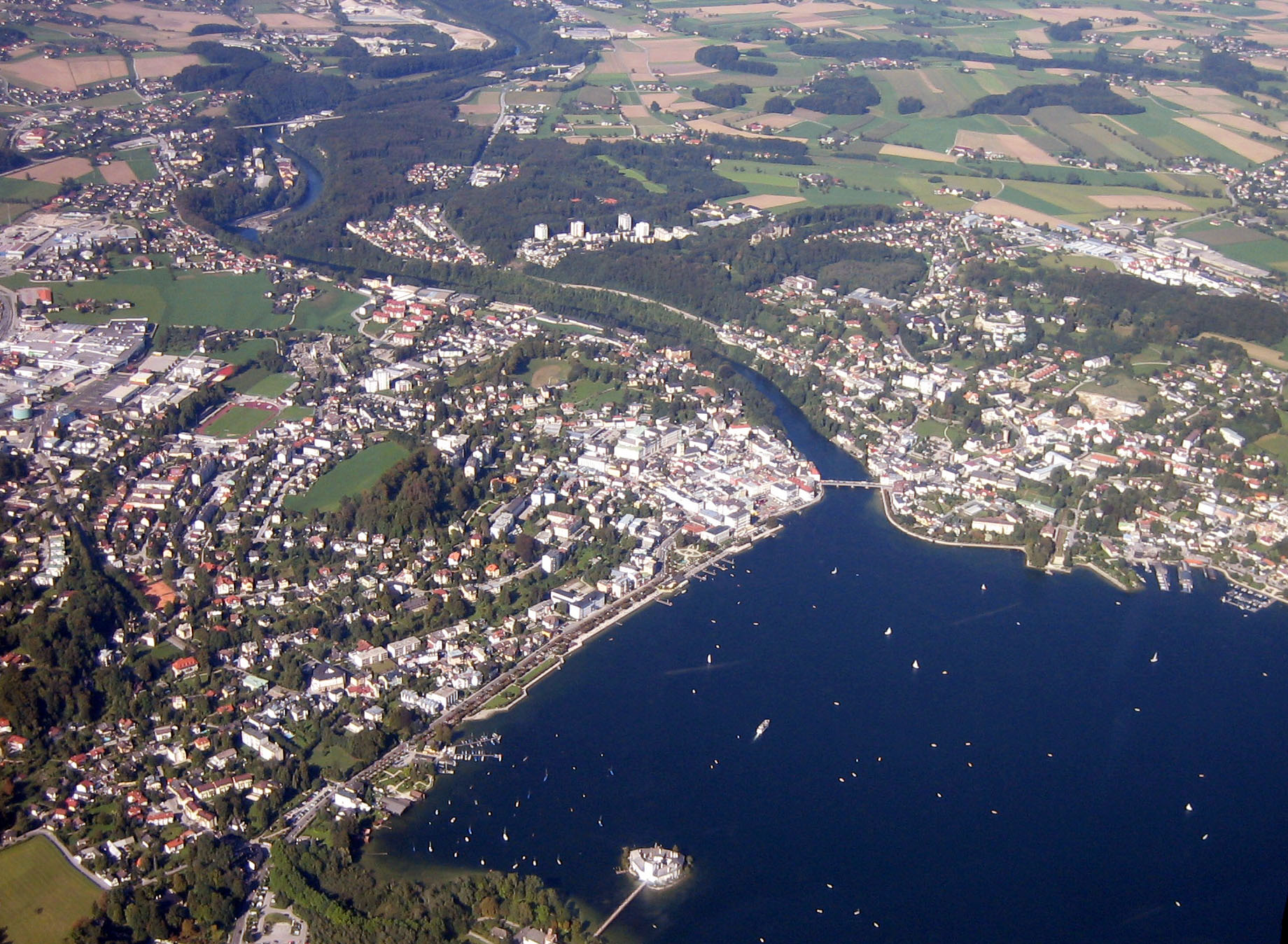 Aerial view of Gmunden and Orth Castle